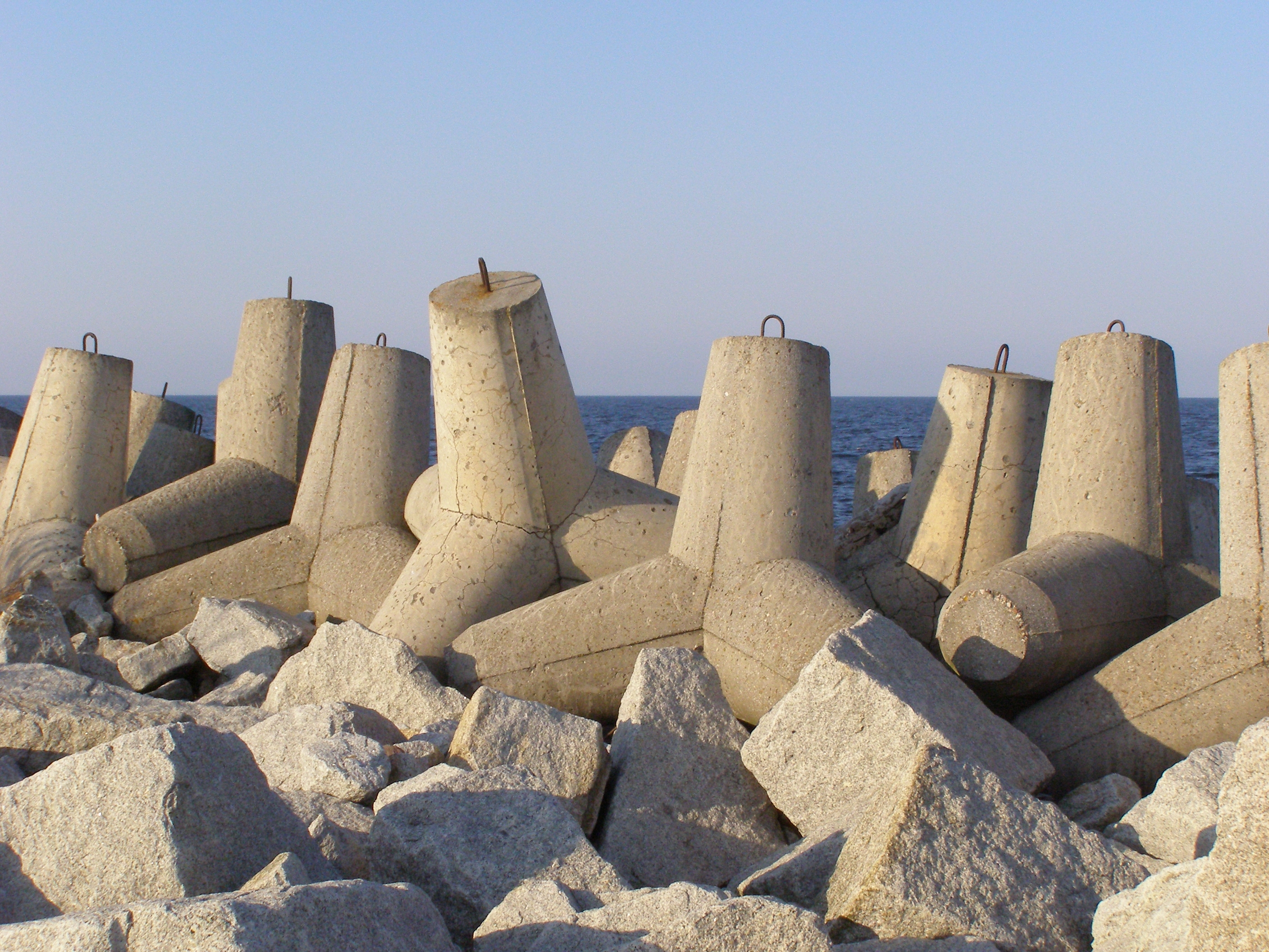 Gdańsk - breakwater in Górki Wschodnie